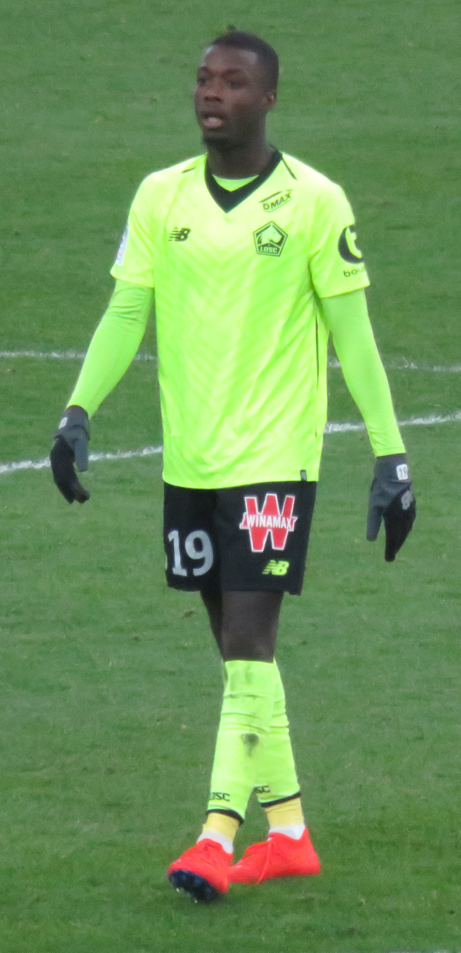 Nicolas Pepe in the shirt of Lille OSC during the match against Olympique Marseille on Friday, January 26, 2019